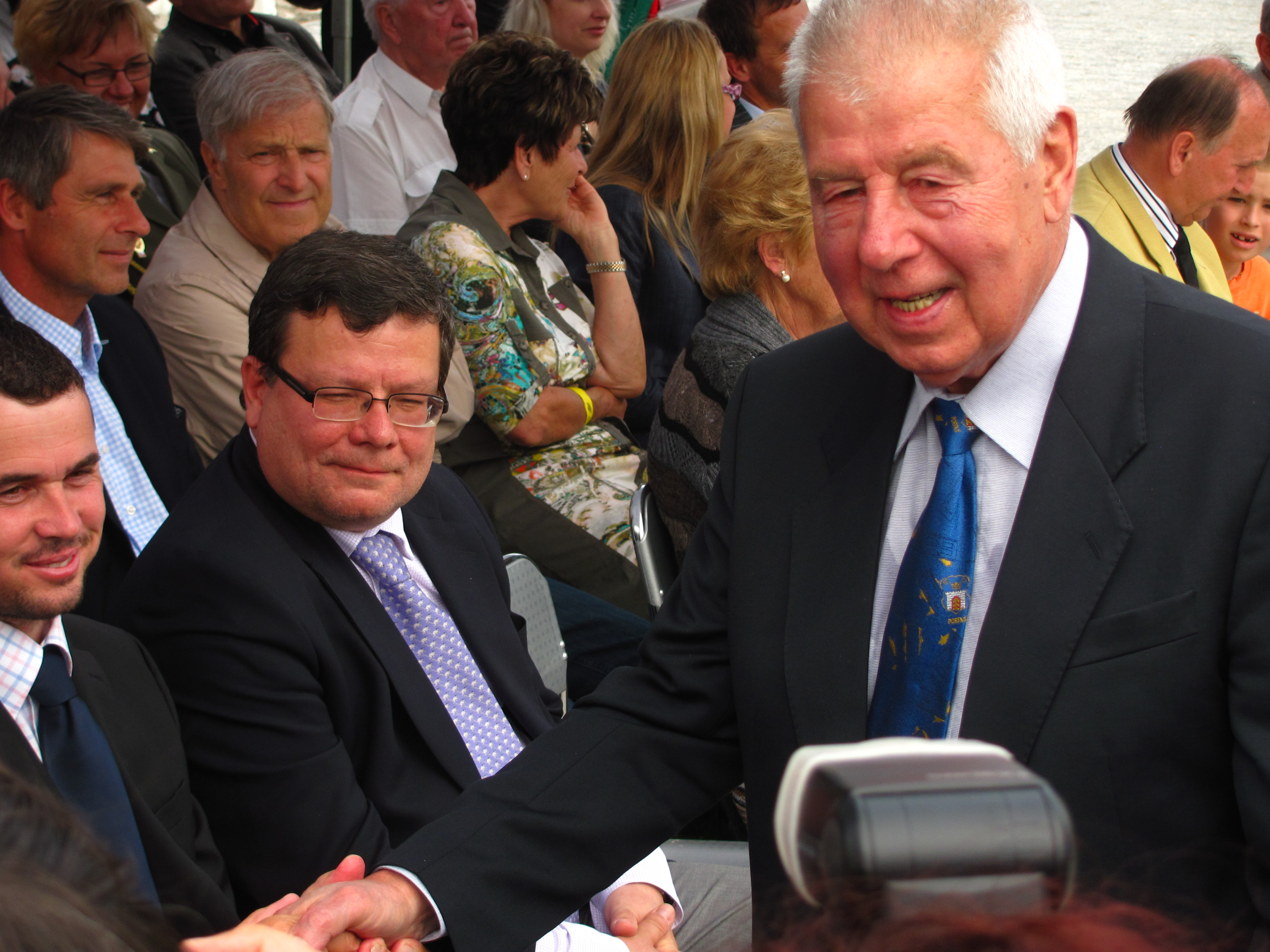 Alexandr Vondra, Minister of Defence of the Czech Rep. (center); Jan Kodeš, Czech tennis player; Jan Železný, Czech javelin thrower (both behind Mr.Vondra) and Josef Masopust, Czech football player (standing on the right) (2012)